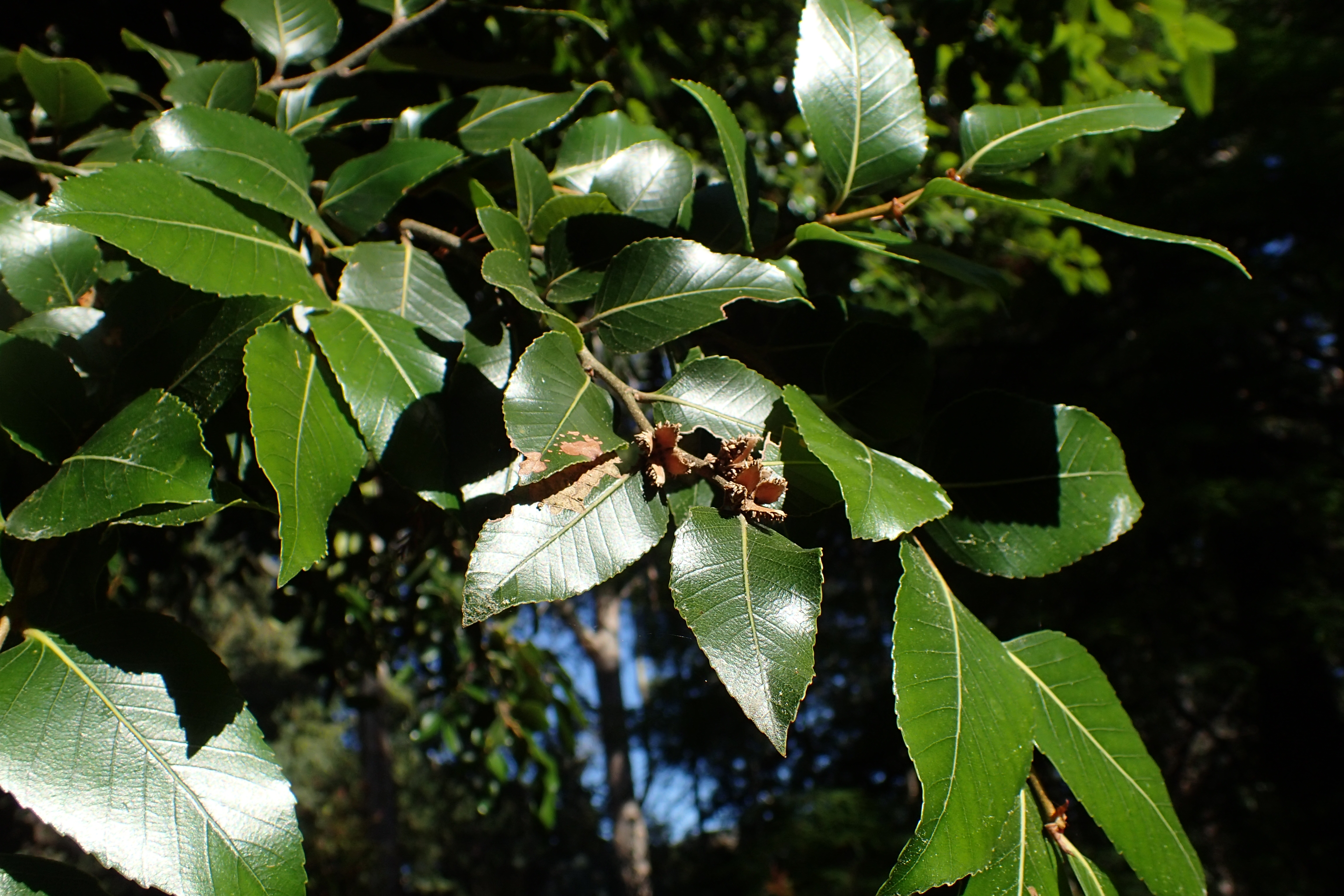 Nothofagus moorei in Dunedin Botanic Garden, New Zealand